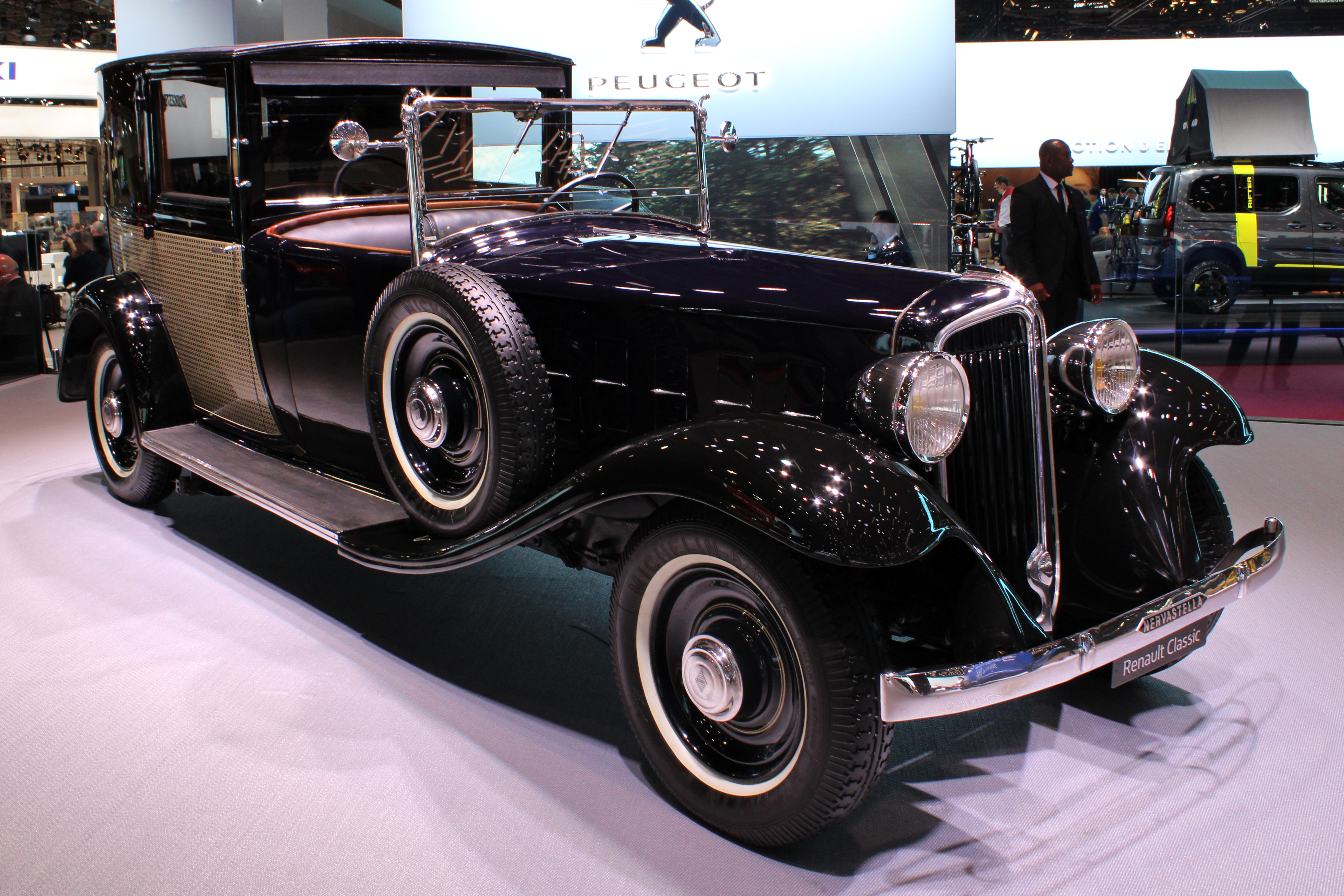 Renault Nervastella at Paris Motor Show 2018